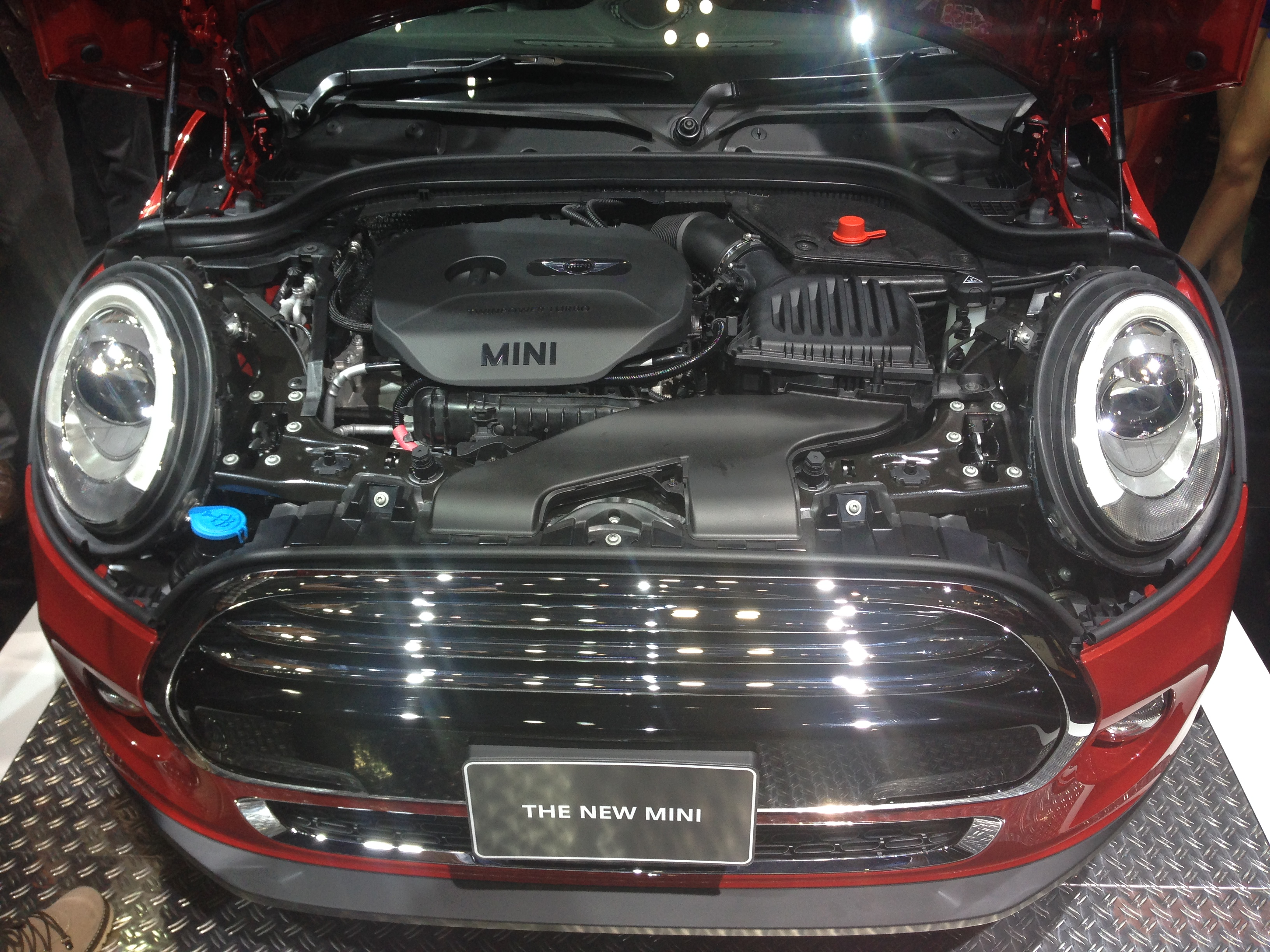 Mini Cooper photographed at the Tokyo Motor Show 2013.